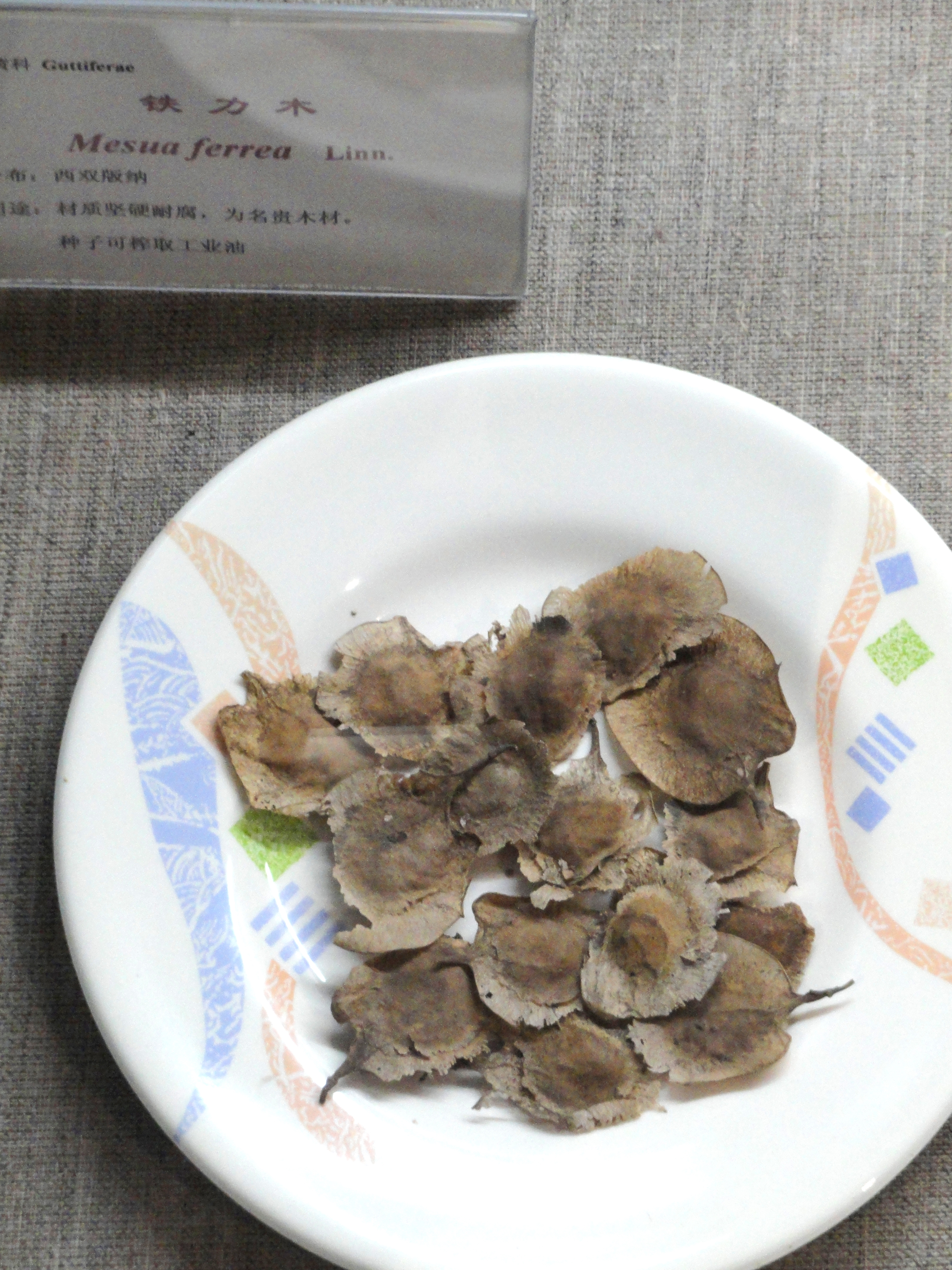 Seeds exhibited in the Kunming Botanical Garden, Kunming, Yunnan, China.